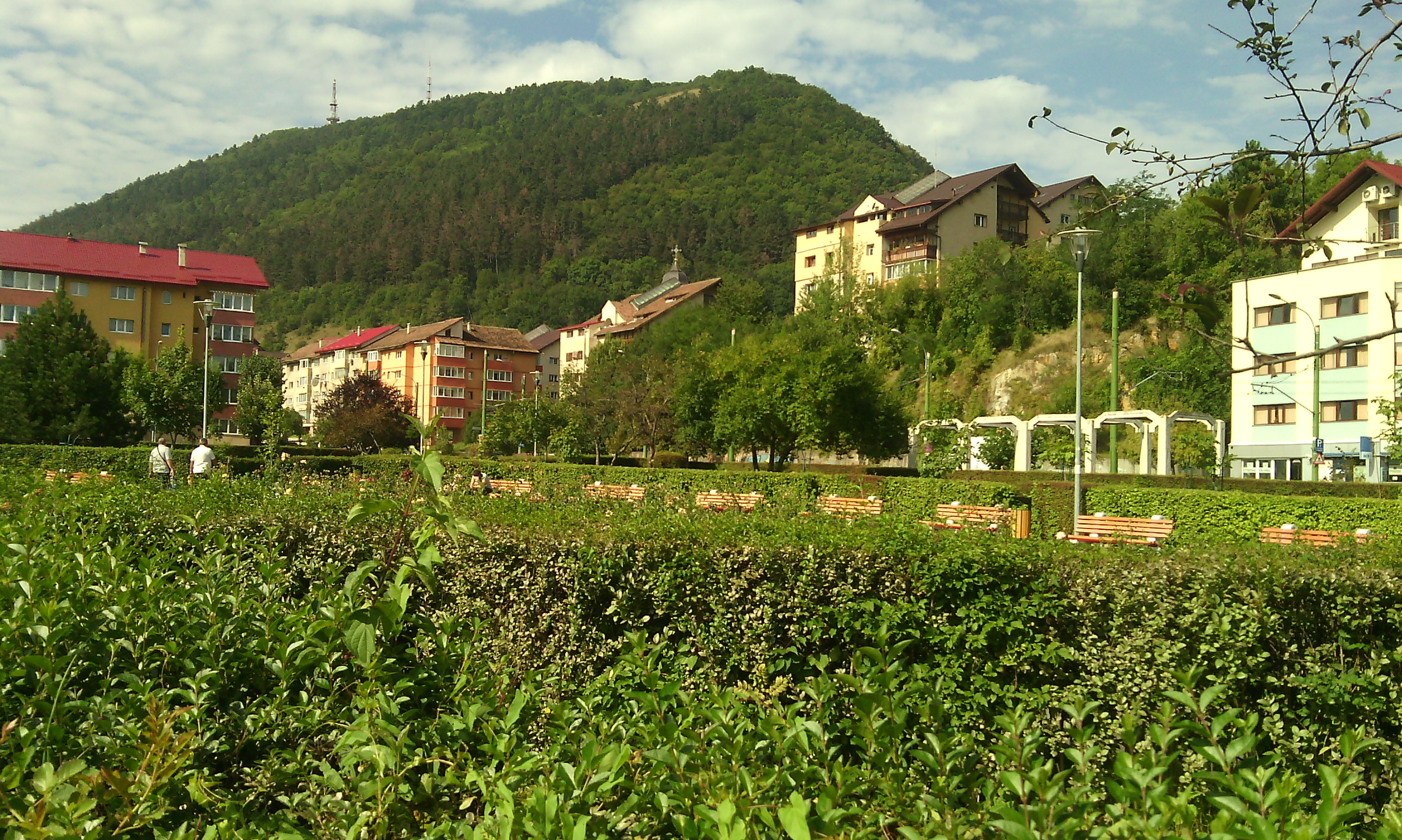 Tâmpa Nature Reserve